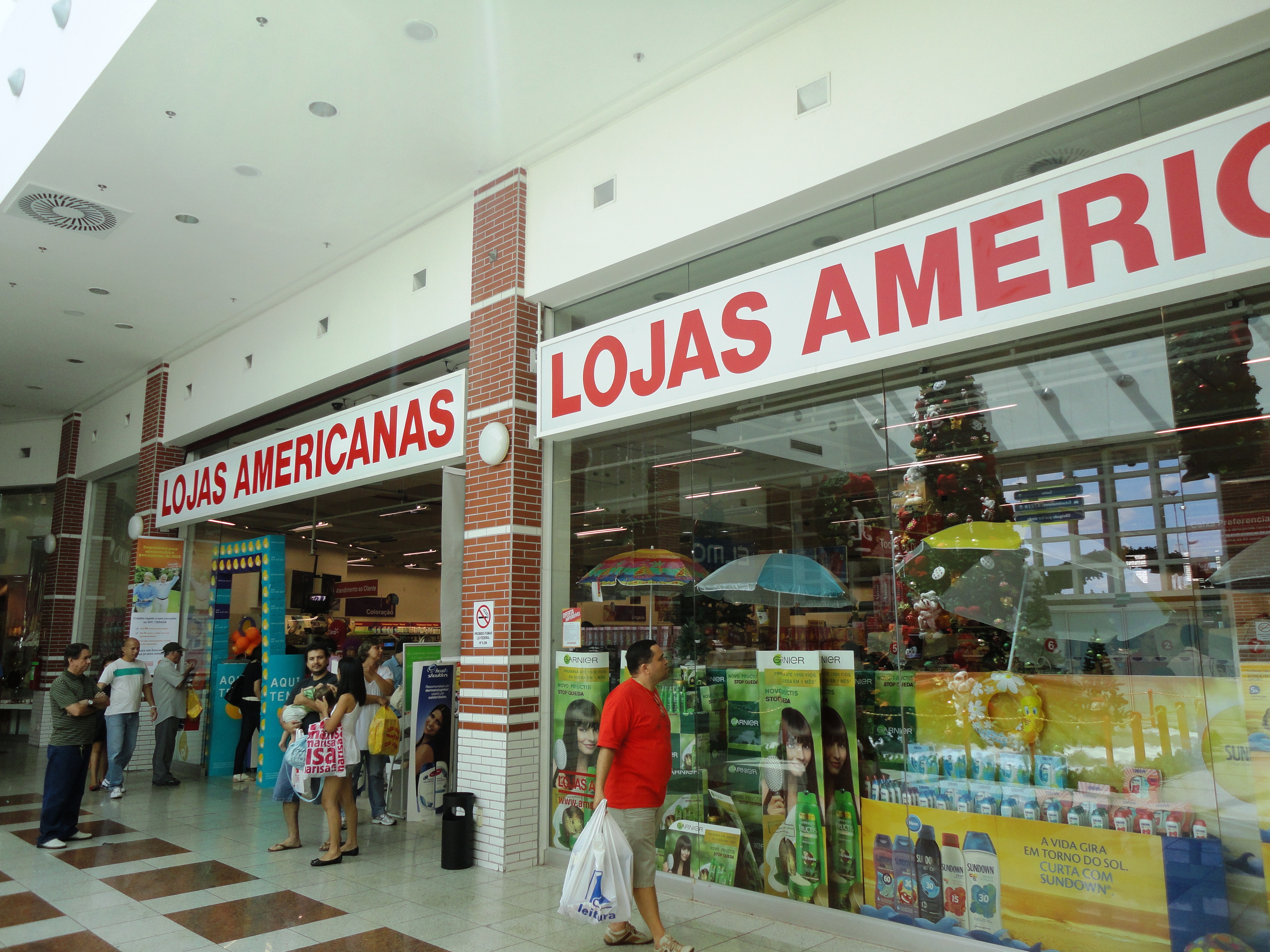 Lojas Americanas in Shopping Vale do Aço, in Ipatinga, Minas Gerais, Brazil